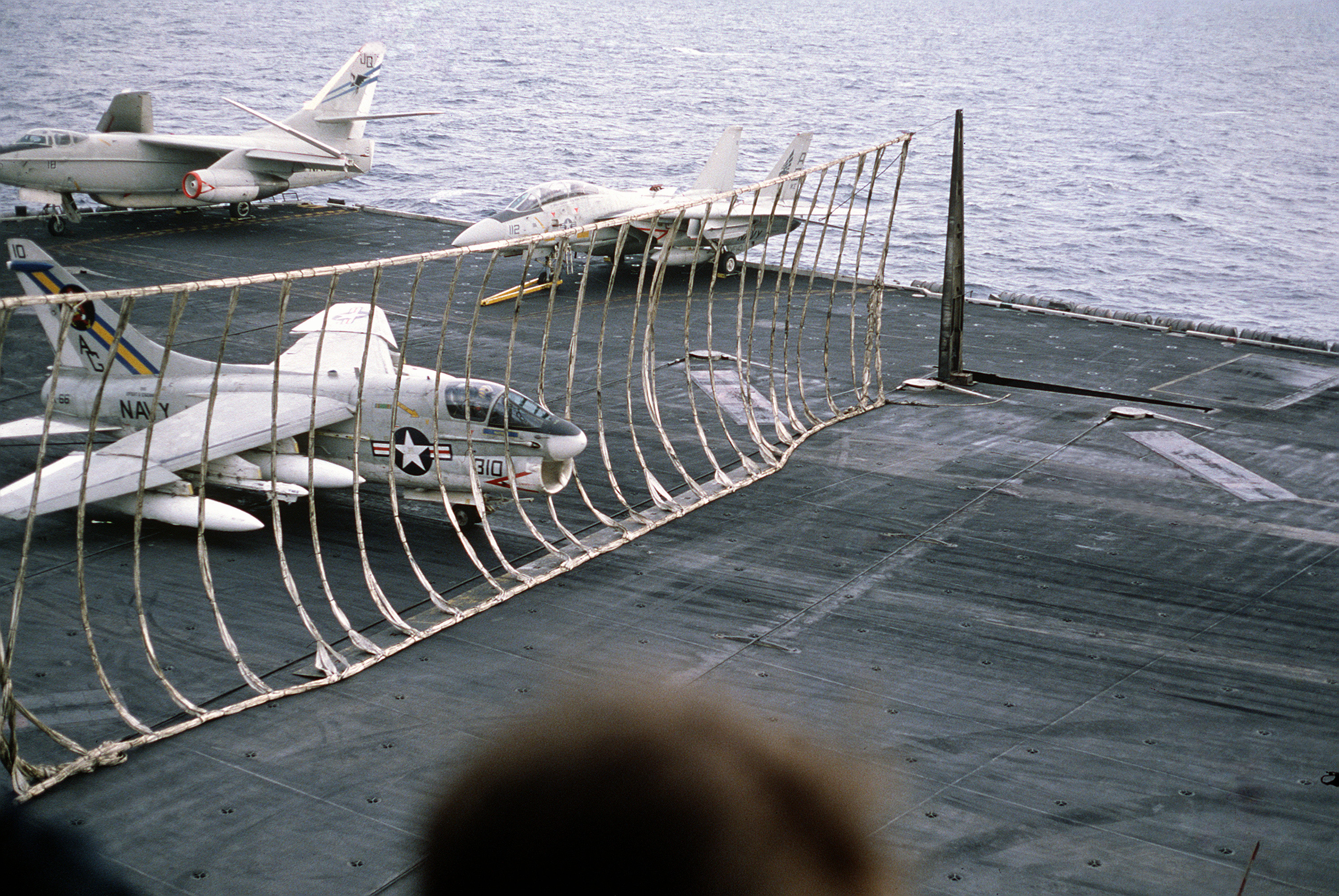 A U.S. Navy LTV A-7E Corsair of Attack Squadron VA-66 "Waldos" making a barrier landing aboard the aircraft carrier USS Dwight D. Eisenhower (CVN-69), in 1983. VA-66 was assigned to Carrier Air Wing 7 (CVW-7) aboard the Eisenhower for a deployment to the Mediterranean Sea from 27 April to 2 December 1983.